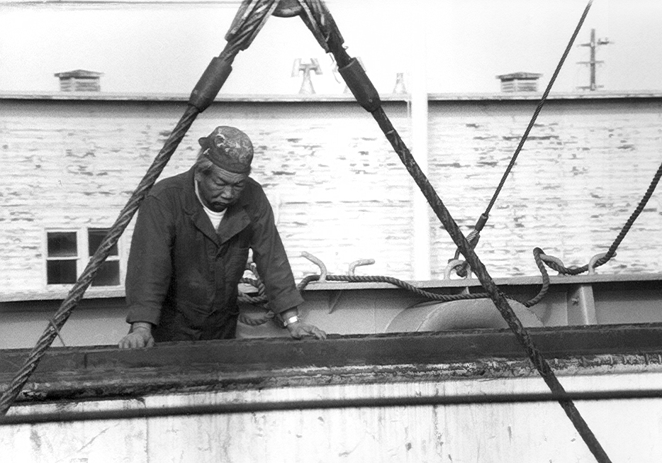 The bosun on deck of a U.S. freighter exams a cargo hold during cargo operations. Date: circa 1981 - 1983 Location: Oakland, California Photographer: Randy C. Bunney Attribution: Randy C. Bunney, Great Circle Photography